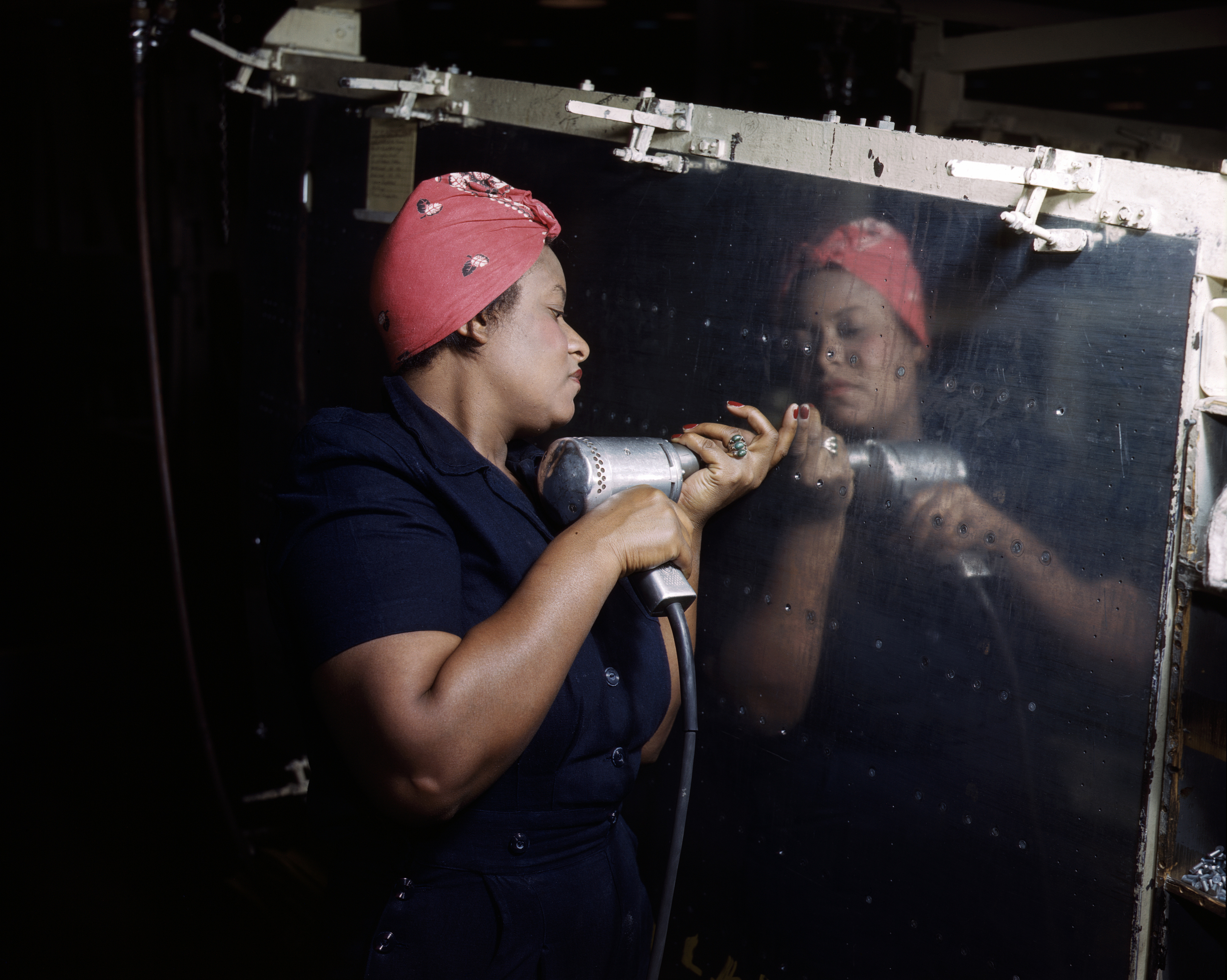 A real-life "Rosie the Riveter" operating a hand drill at Vultee-Nashville, Tennessee, working on an A-31 Vengeance dive bomber. Downsampled from original and sharpened slightly and resaved to increase managability of file.